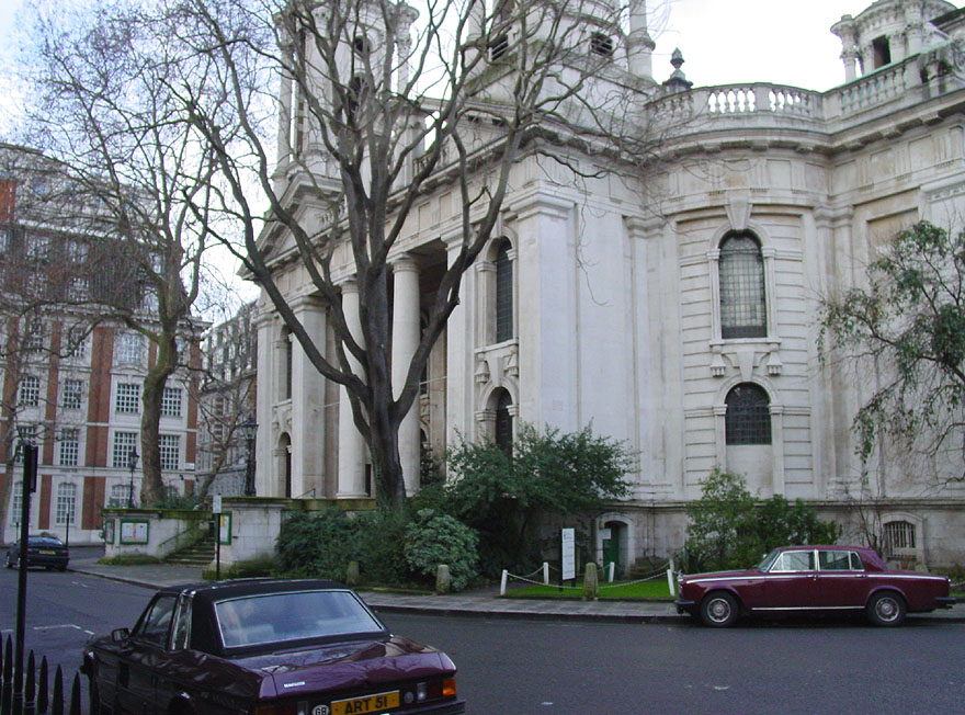 Smith Square, London